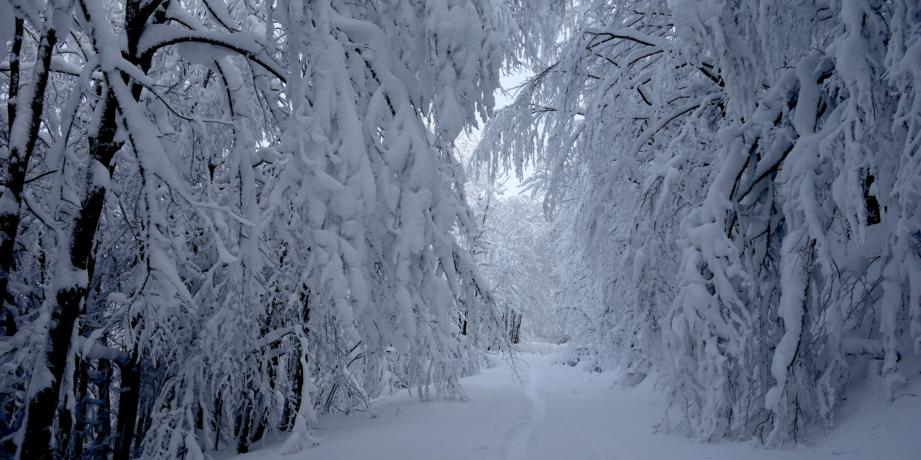 Vihorlatské vrchy in the winter, frost on trees.